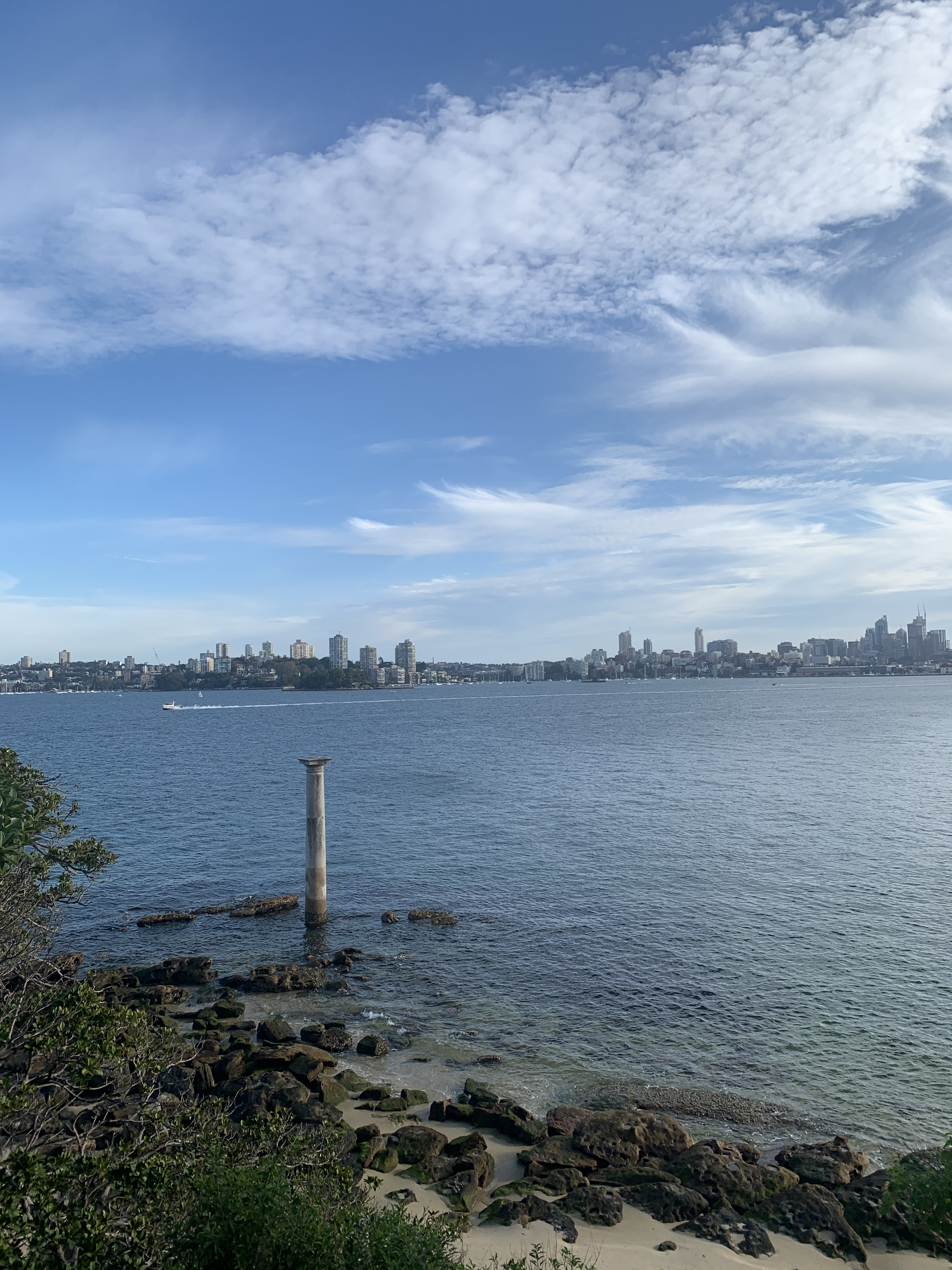 In 1871, one of the original six Doric stone columns from the now-demolished George Street Sydney Post Office was placed in the water at Bradleys Head as a navigational aid. It marked one nautical mile from the Fort Denison naval base.